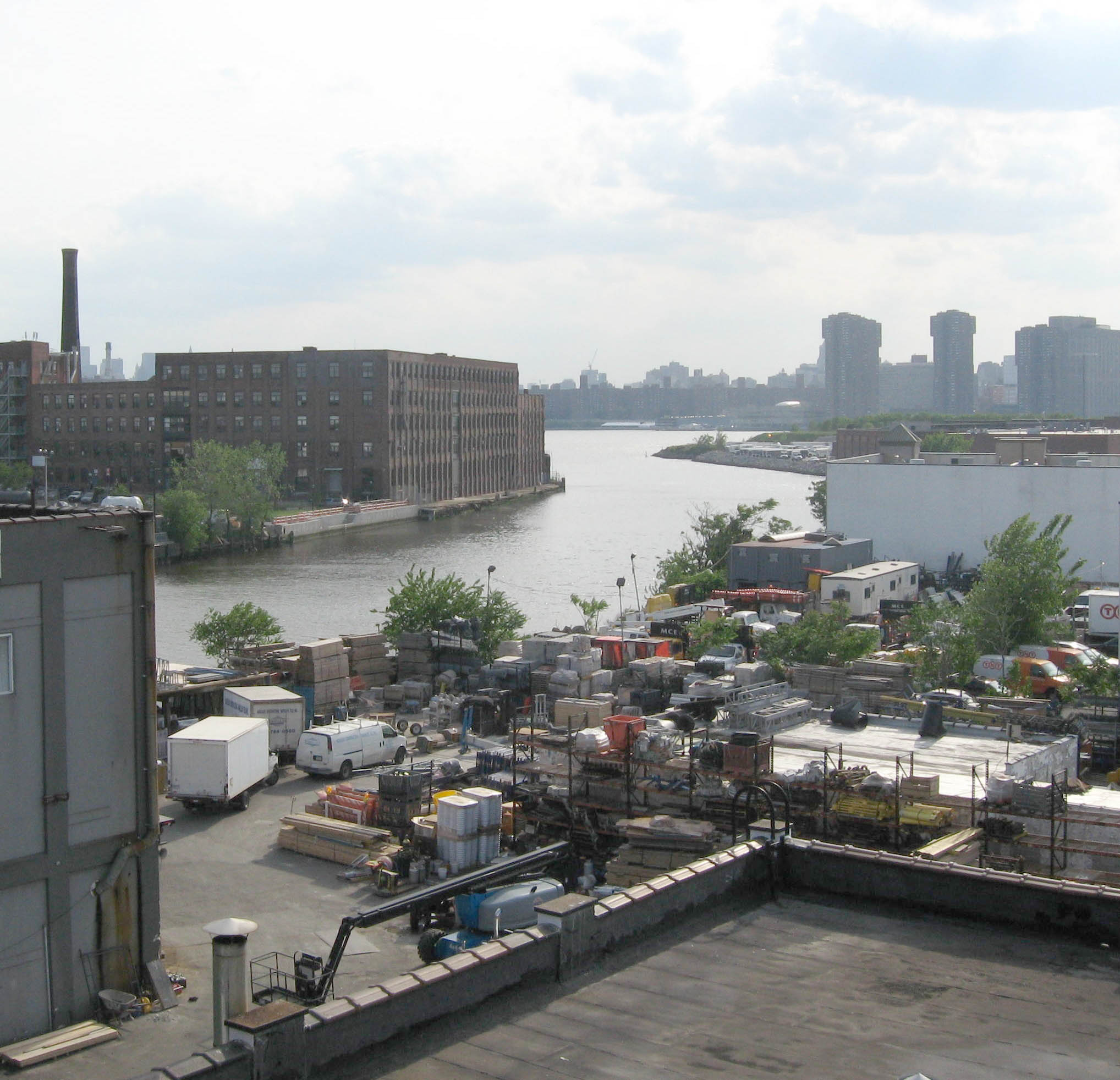 Looking west downstream at mouth of Newtown Creek on a sunny June 3 2008 afternoon. Paved area upriver of the brick warehouse on the left bank is a park under construction at the foot of Manhattan Avenue Greenpoint, Brooklyn.